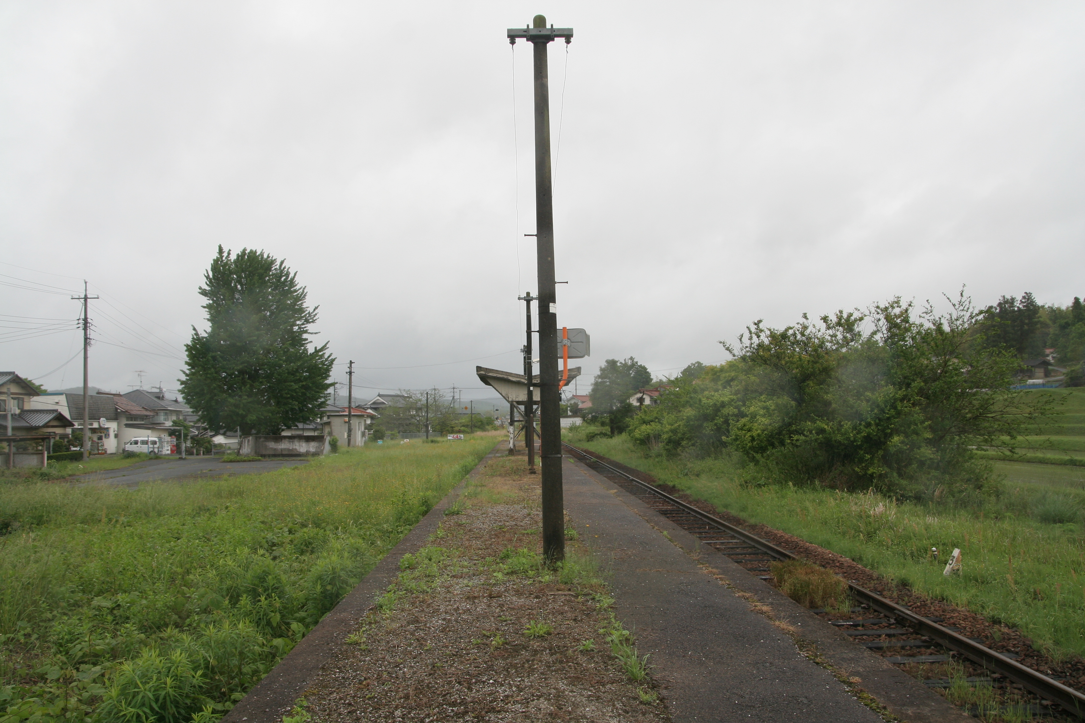 JR West Geibi Line Yamanouchi Station enclosure